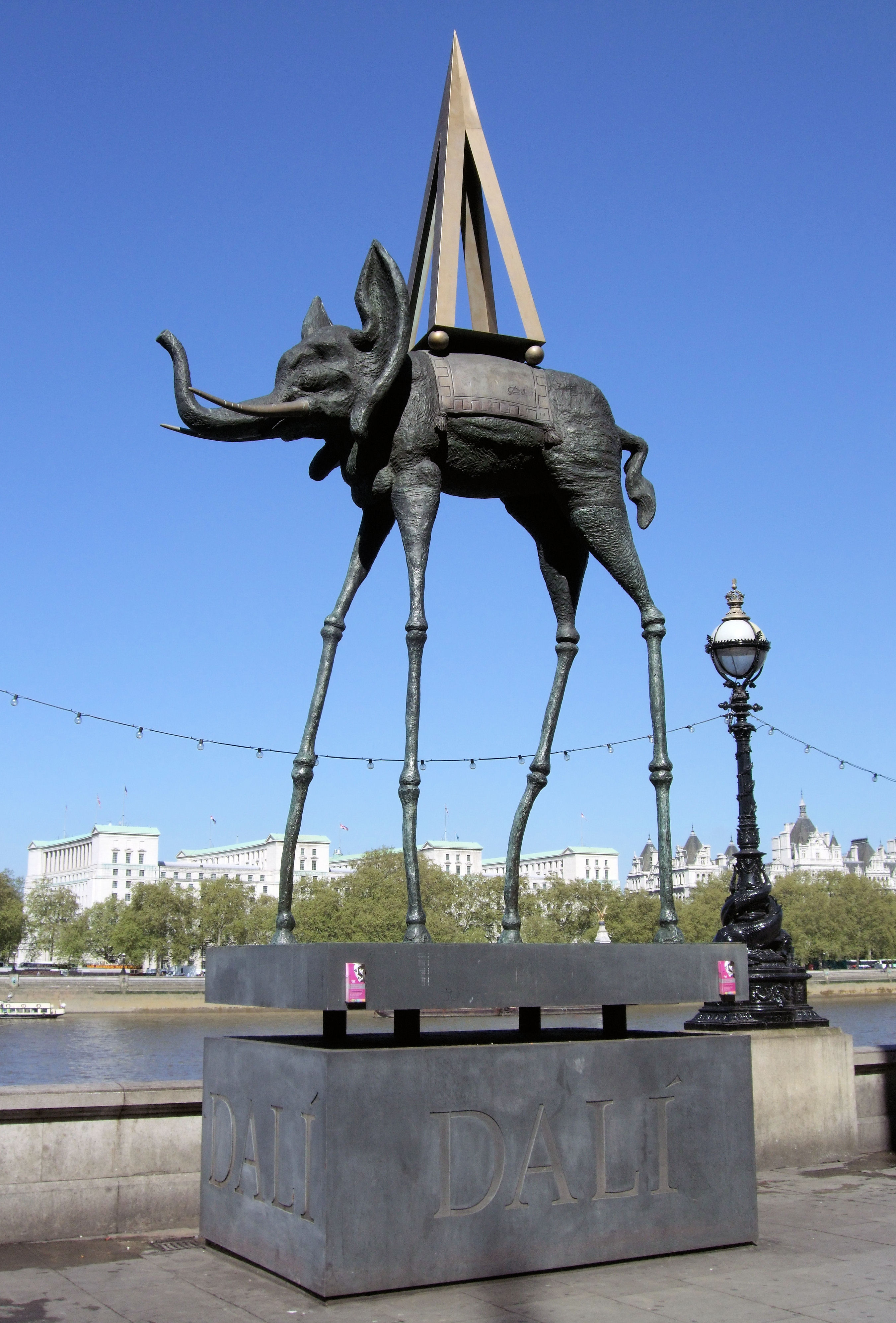 Space Elephant (Based on a 1946 painting by Dali, an elephant with spider legs carries an obelisk on its back, 1980.) Taken from the painting, The temptations of St.Anthony, Dali's sculpture depicts an elephant traveling in a desert carrying an obelisk, which is a symbol of power, desire and domination. He suggests that St.Anthony was visited by such desires. The elephant has long spider legs which signify desire.